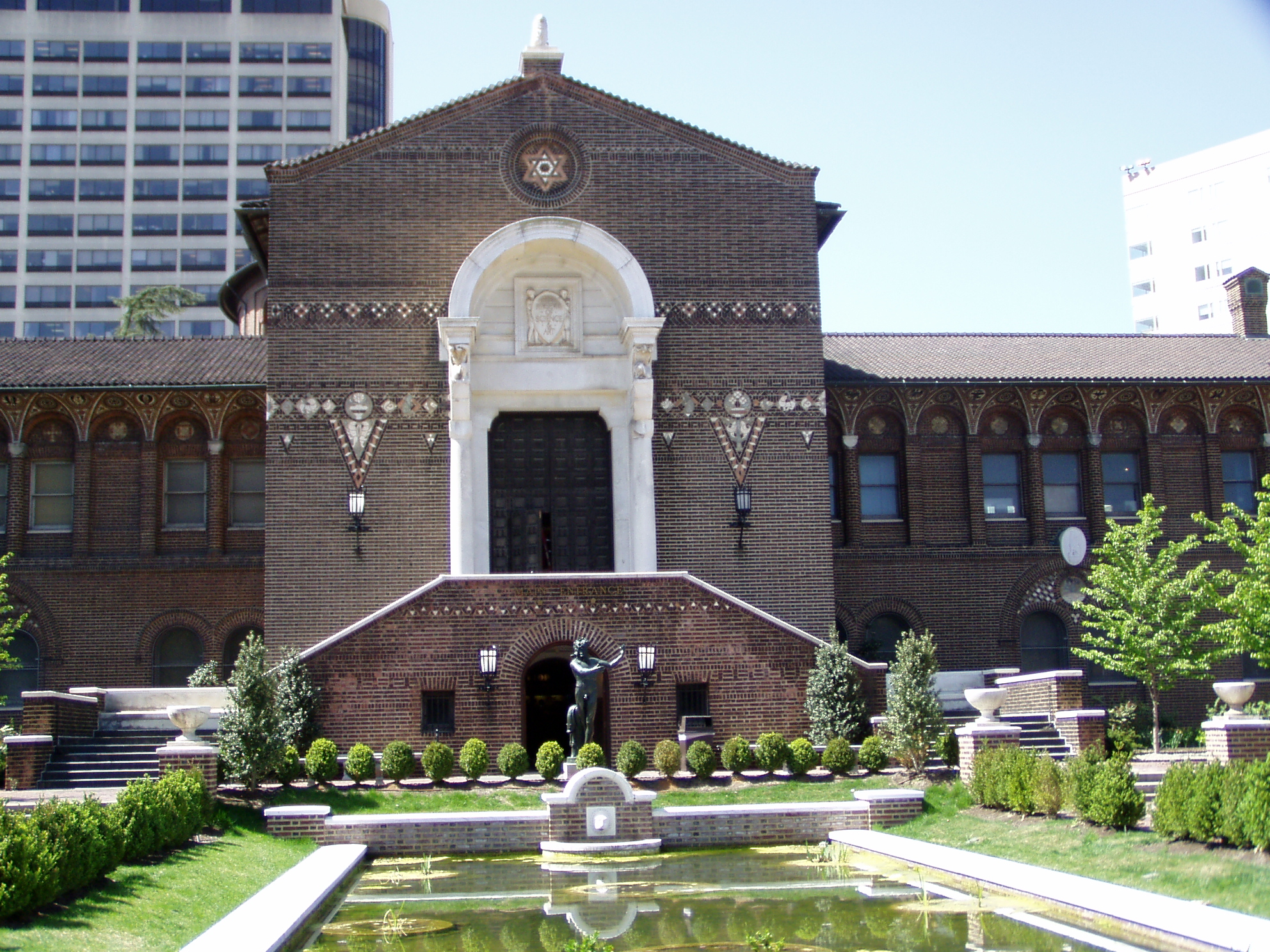 Taken in Philadelphia, Pennsylvania, in April 2006. University of Pennsylvania Museum of Archaeology and Anthropology. The Warden Garden is visible in the foreground, and the inscription above the door reads FREE MVSEVM OF SCIENCE & ART.